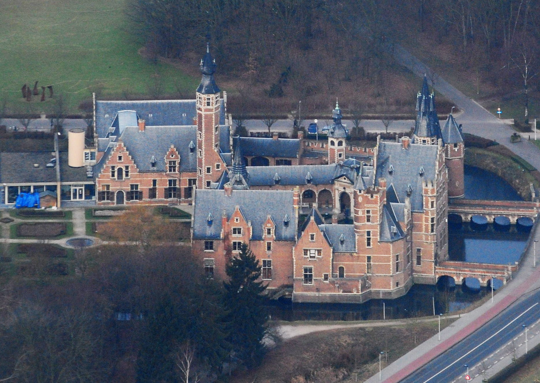 Aerial view of the castle Sterckshof at the Rivierenhof park, district of Deurne, Antwerp (Belgium). Nikon D60 f=110mm f/13 at 1/250s ISO 800. Colour corrected and reframed using Adobe Photoshop 4.0.